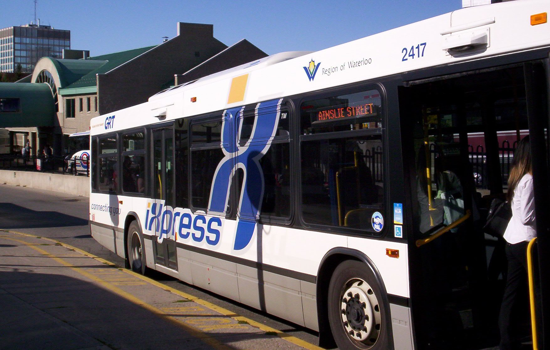 A Grand River Transit bus, in the livery of its iXpress rapid-bus service, loading passengers southbound from the Charles Street Terminal, Kitchener, Ontario, Canada. Personal photo by user:Radagast.